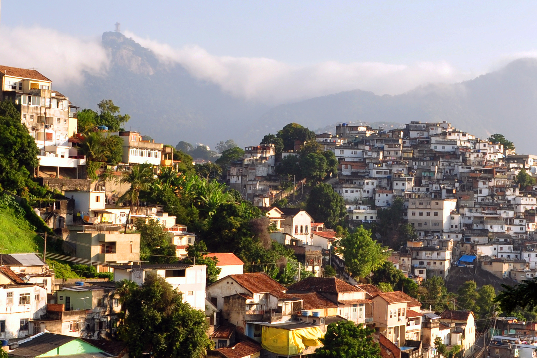 Rio de Janeiro slum (right) on hill, contrasted with a more affluent neighbourhood, as viewed from a tram in Santa Teresa; Cristo Redentor (christ statue) is in the left background